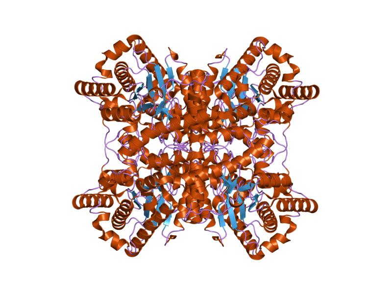 Cartoon representation of the molecular structure of protein registered with 7xim code.